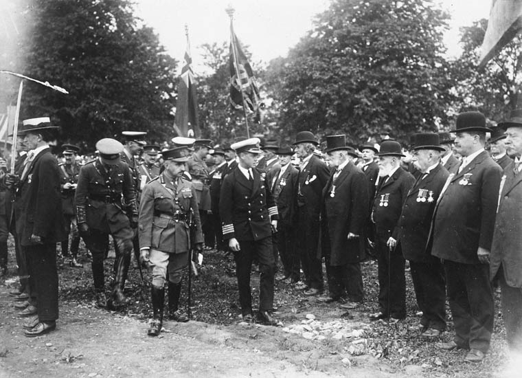 Prince of Wales' visit to Canada. Inspecting veterans Halifax, Aug. 17-18, 1919